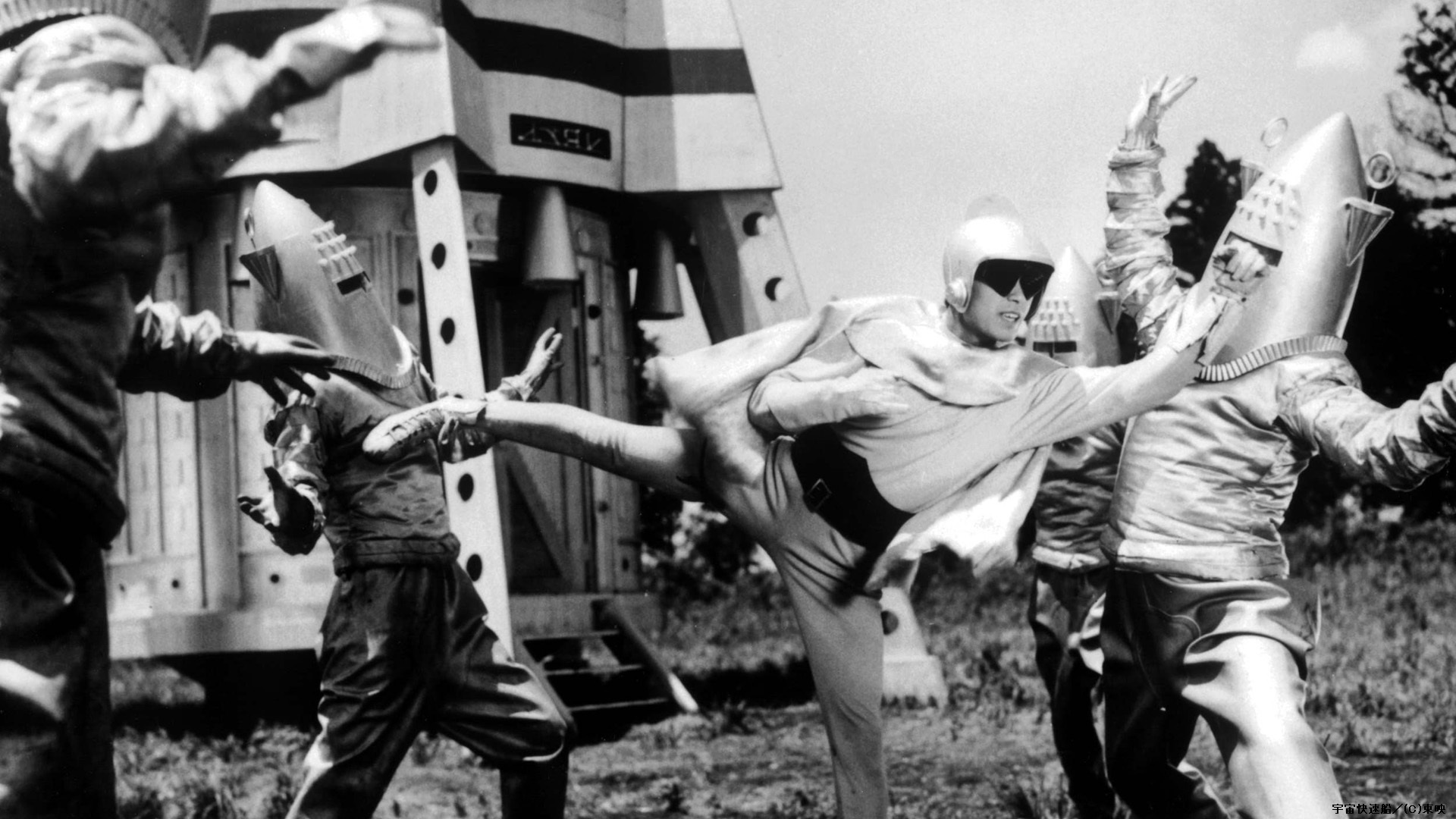 Still life photography of "'Invasion of the Neptune Men'" (1961)